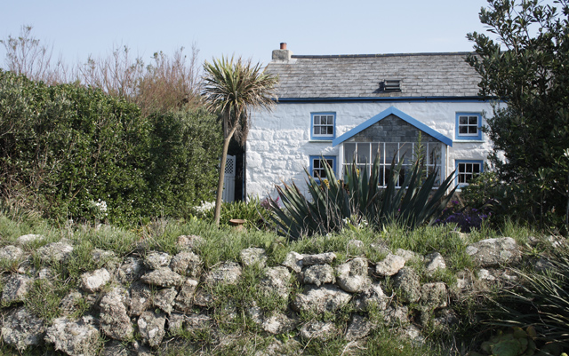 Periglis Cottage Once the home of St Agnes's resident ornithologist Miss Hilda M Quick. My parents still have on their bookshelf a signed copy of her wonderful, wryly written, book "Birds of the Scilly Isles" published in 1964. Long out of print now I fear.